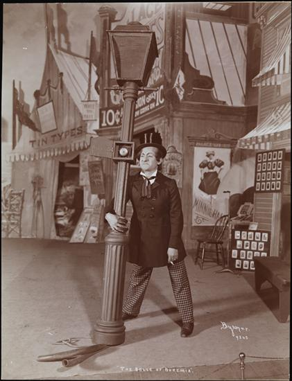 Sam Bernard as Adolph Klotz in The Belle of Bohemia at the Casino Theatre in New York (1900)